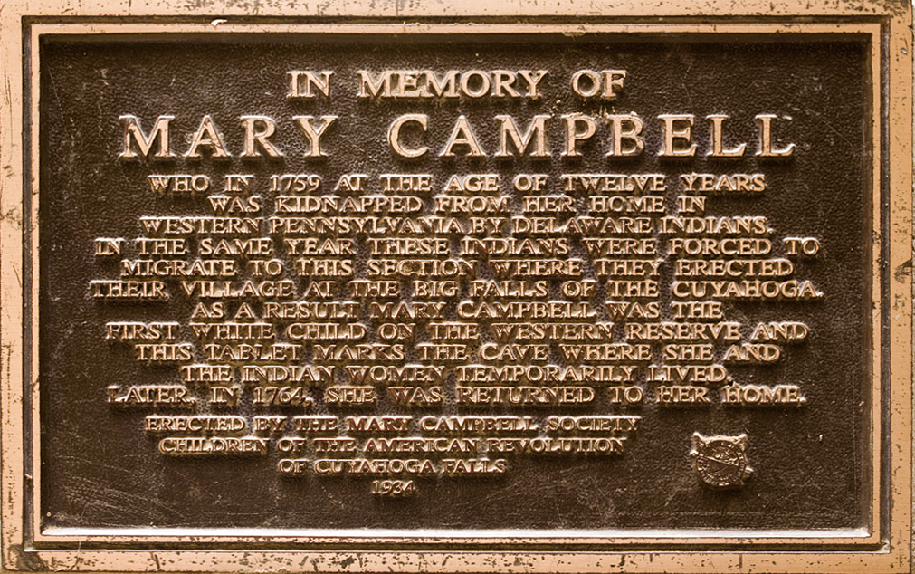 This is a photograph of the memorial to Mary Campbell that is placed just outside Mary Campbell Cave.